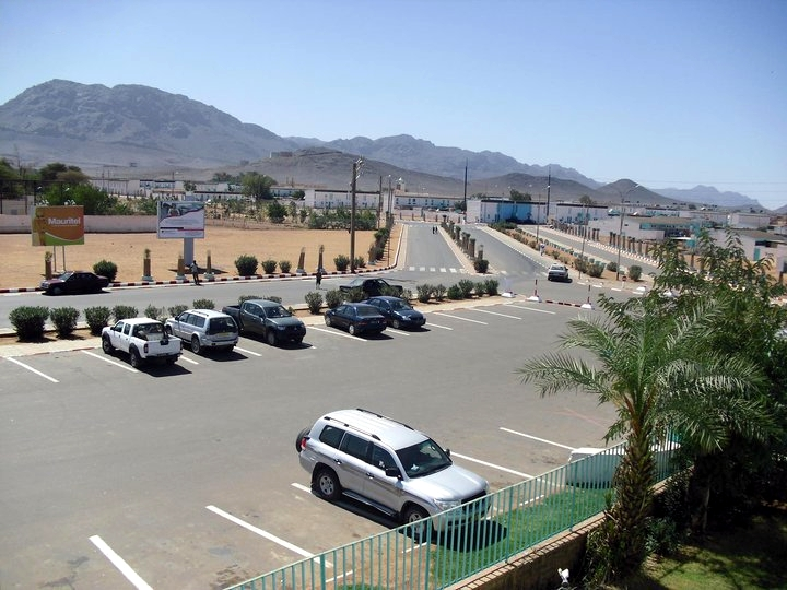 street in zouerat